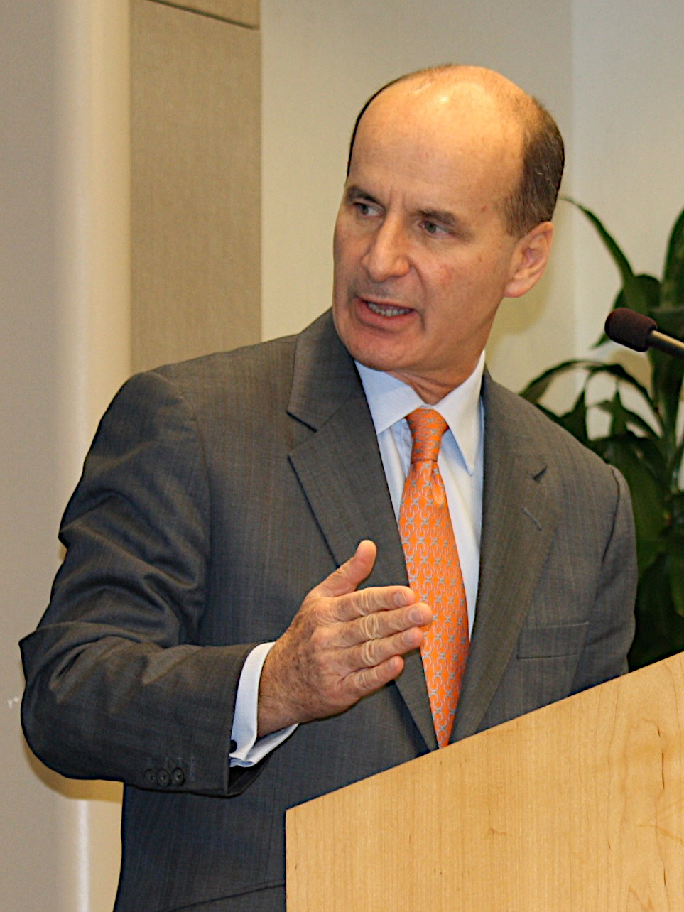 José María Figueres, former President of Costa Rica, speaking at Brookings Institution